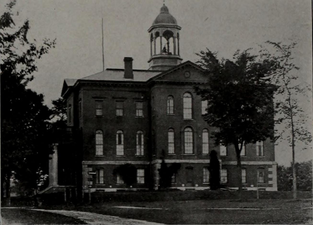 Title: Mirror, 1920 Year: 1920 (1920s) Authors: Subjects: yearbooks Publisher: Bates College Text Appearing Before Image: year. FIGITRE 8—A local trolley line connecting the college with the centerof the city. Its course takes the form of a figure eight. TIPPING HATS TO PROFS—It is an old custom to touch the hatwhenever meeting a professor on campus or street. RINGING OF CHAPEL BELL—Every victory is proclaimed by anenthusiastic ringing of the college bell. BIRD WALKS—Every spring is marked by frequent early morningwalks foi- the study of birds. This custom was introduced by ProfessorStanton and has been continued by other memheis of the faculty. ON CAMPUS—A term applied whenever the privilege of leaving thecampus is withheld from a girl because of some infraction of rules. SENIORS LAST CHAPEL—The last chapel of the college year isgiven over to the Senior class. The memorable feature of the exercises isthe singing of Auld Lang Syne by the students in leaving Chapel. THE BATES STUDENT—The weekly publication of the student body. ?age 165 zc ar 5 CLASS OF 1920 C «Uk Tf—■^PT^^WF BATES II w Text Appearing After Image: i^at^otn l^all